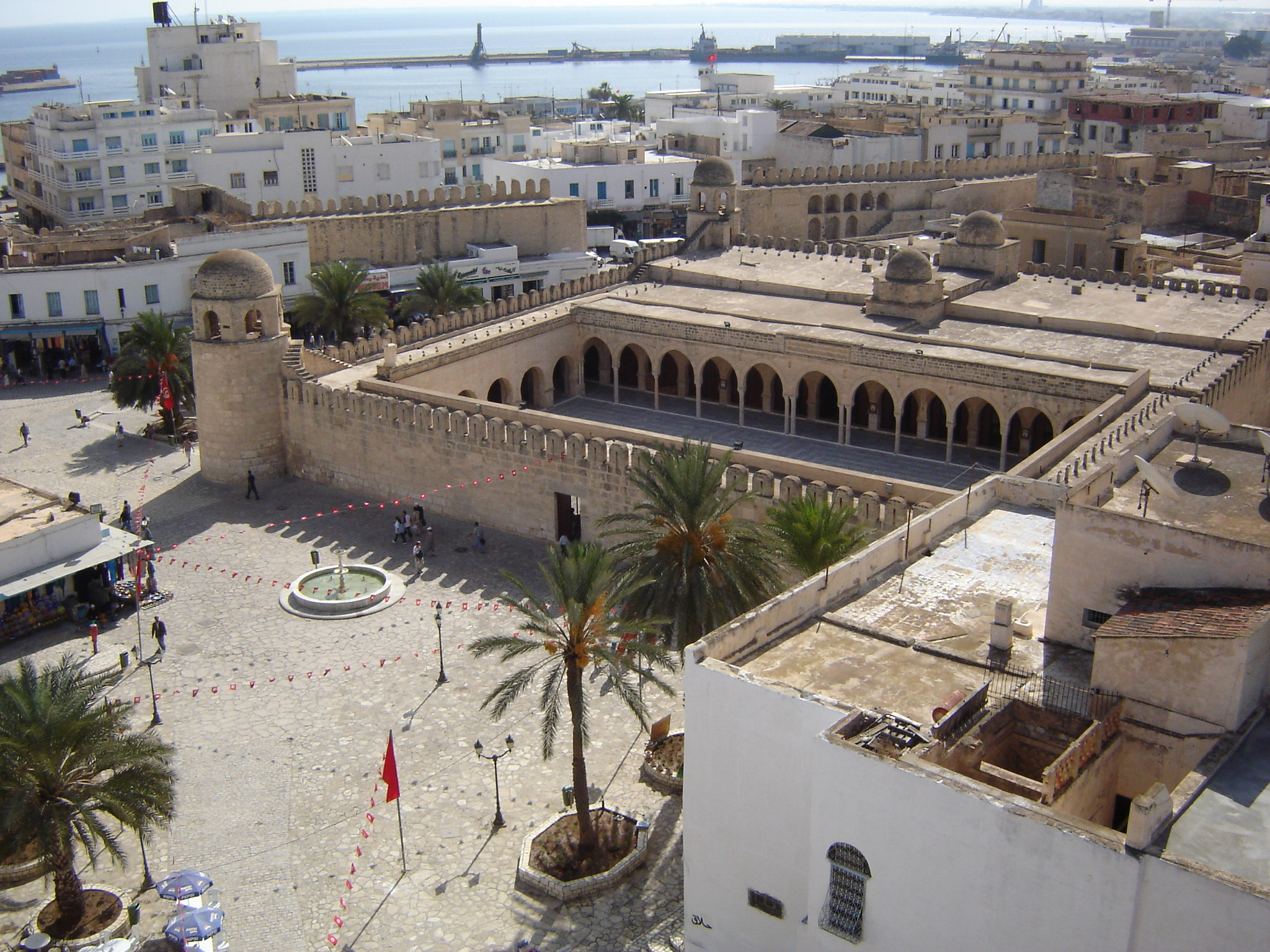 The Grand Mosque of Sousse, as seen from the tower of the Ribat Source: Self-made (October 2004) Author: BishkekRocks 15:10, 29 December 2005 (UTC)